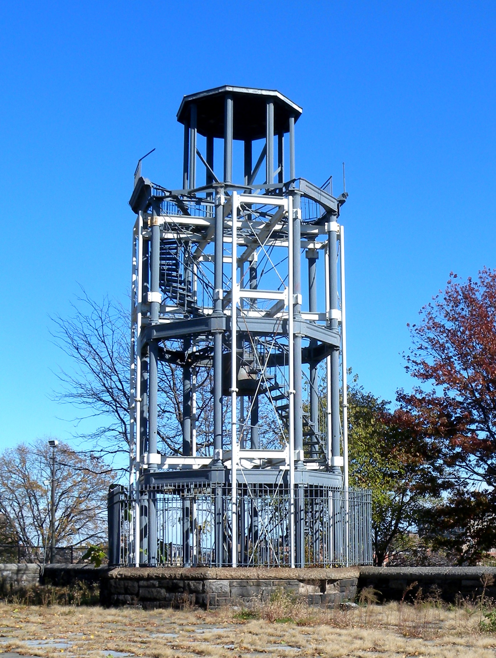 Looking northeast at Mt Morris Watchtower on a sunny midday. EXIF time is off by an hour due to photographer forgetting to set to Standard Time.